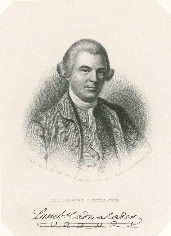 Taken from - due to its age it's in the public domain